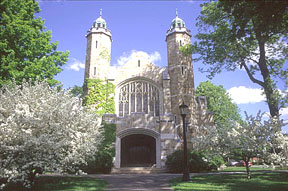 Bates College Chapel, modeled after University of Cambridge's King's College Chapel.